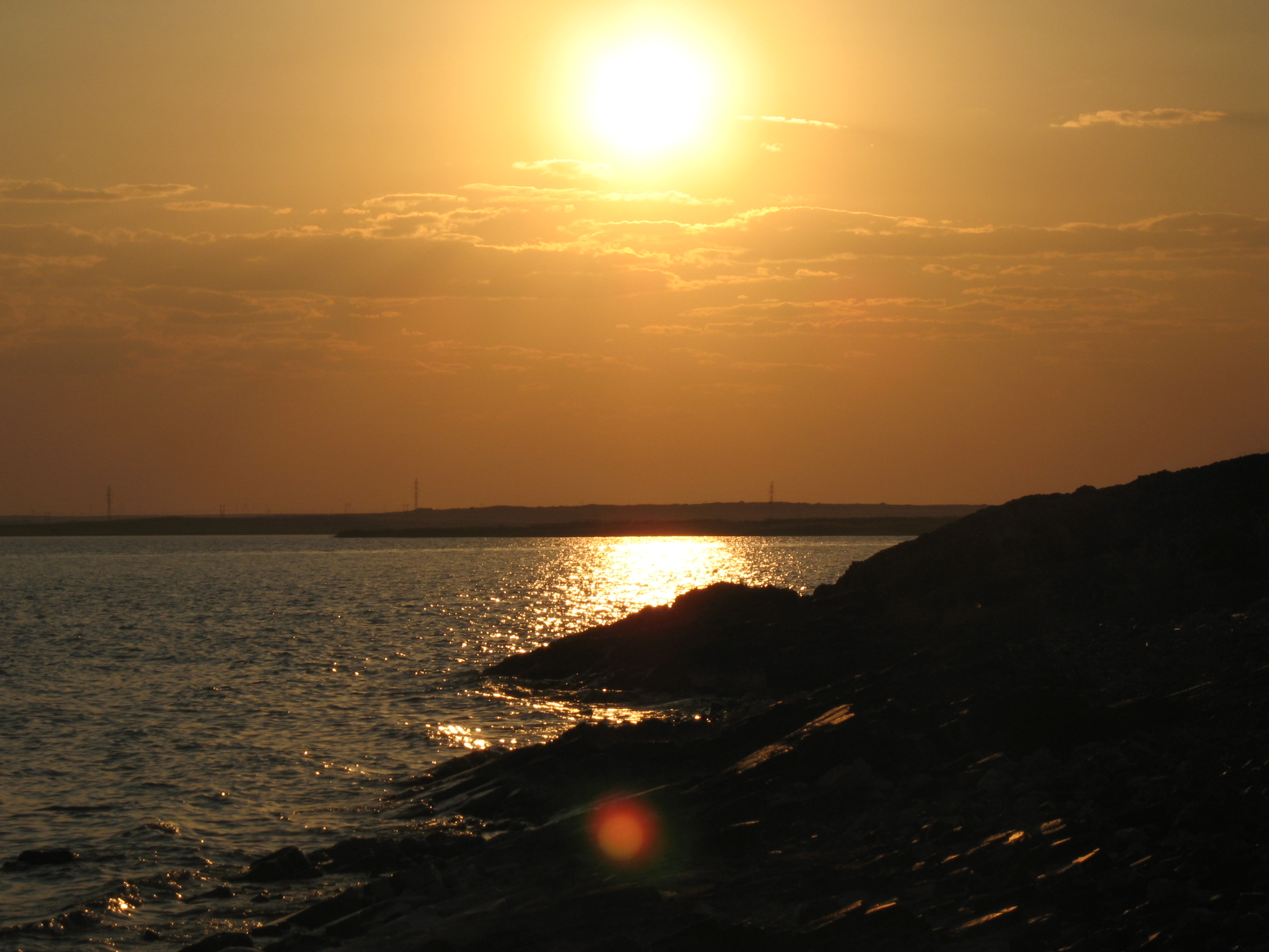 Lake Balkhash, near Priozersk city